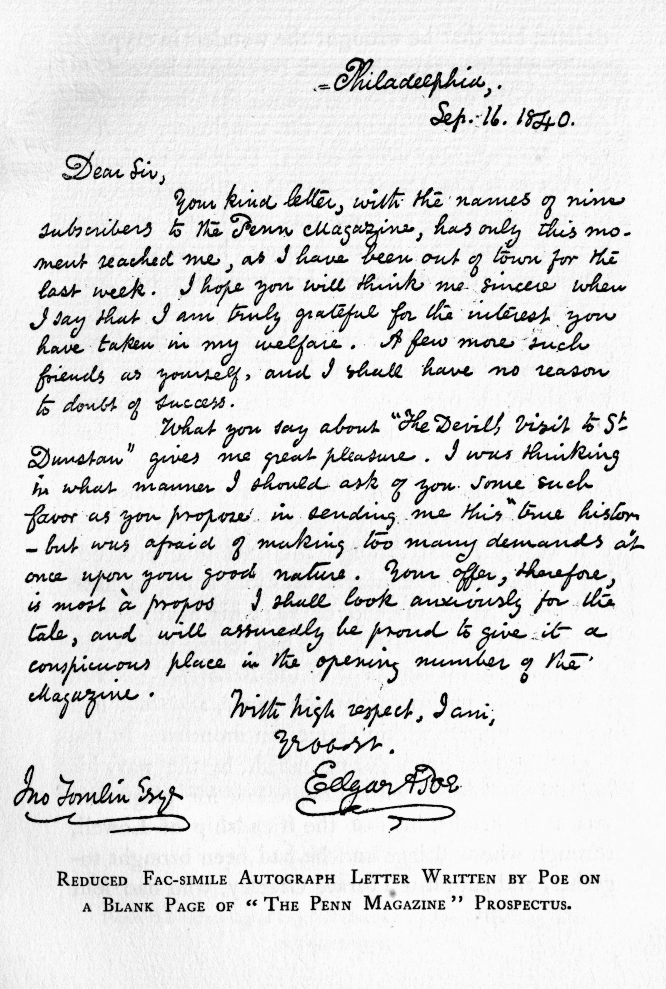 Letter of E A Poe